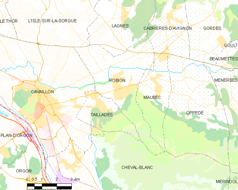 Map of French municipality Robion